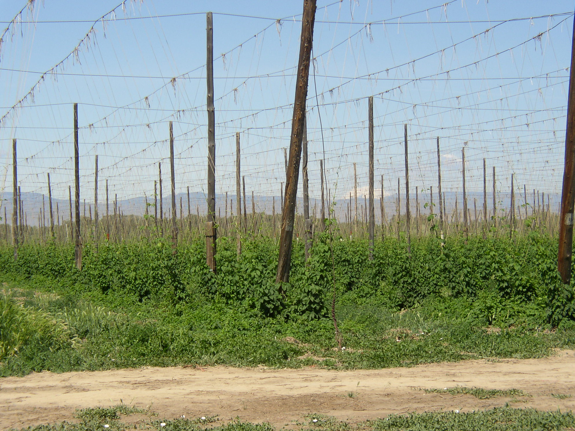 Hop yard in the Yakima Valley showing the early spring growth.